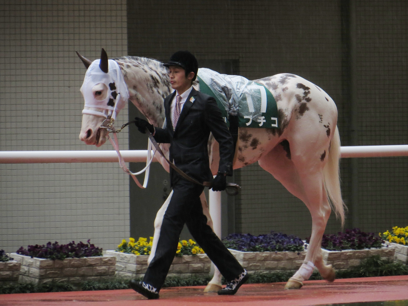 Buchiko (Racehorse of Japan. Dominant white horse)